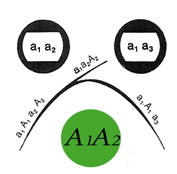 Ouchterlony double immuno diffusion pattern of parcial antigen identity. Recompiled and formatted by 2006 IMM435 Class of the University of Toronto